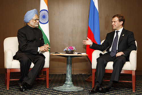 ЯПОНИЯ, ОСТРОВ ХОККАЙДО, ТОЯКО-ОНСЭН. С Премьер-министром Индии Манмоханом Сингхом.